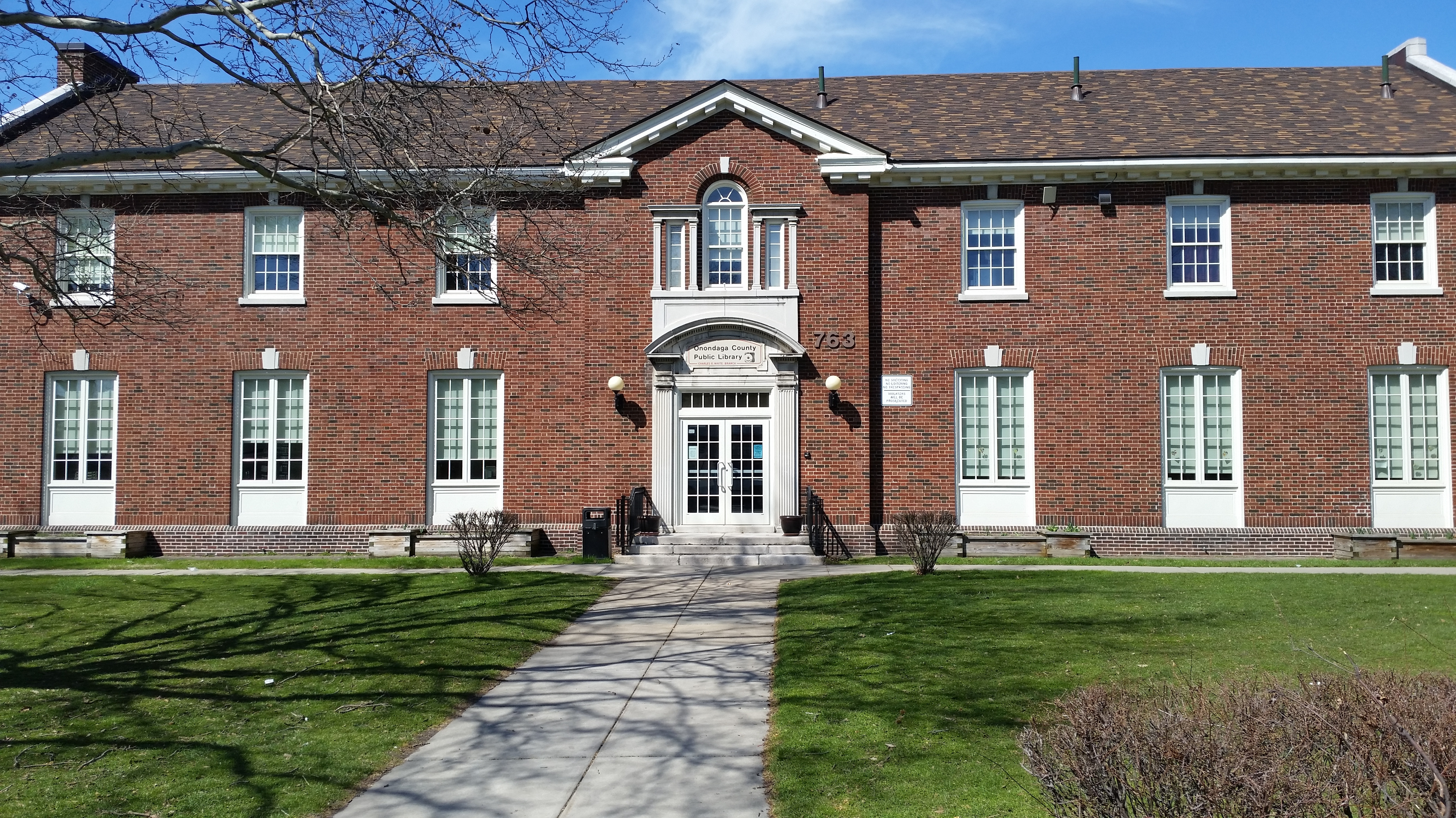 Charles E. White Branch, Onondaga County Public Library, 763 Butternut St., Syracuse, New York; on the northside. Opened in July 1925, White Branch Library was Syracuse's first branch library.